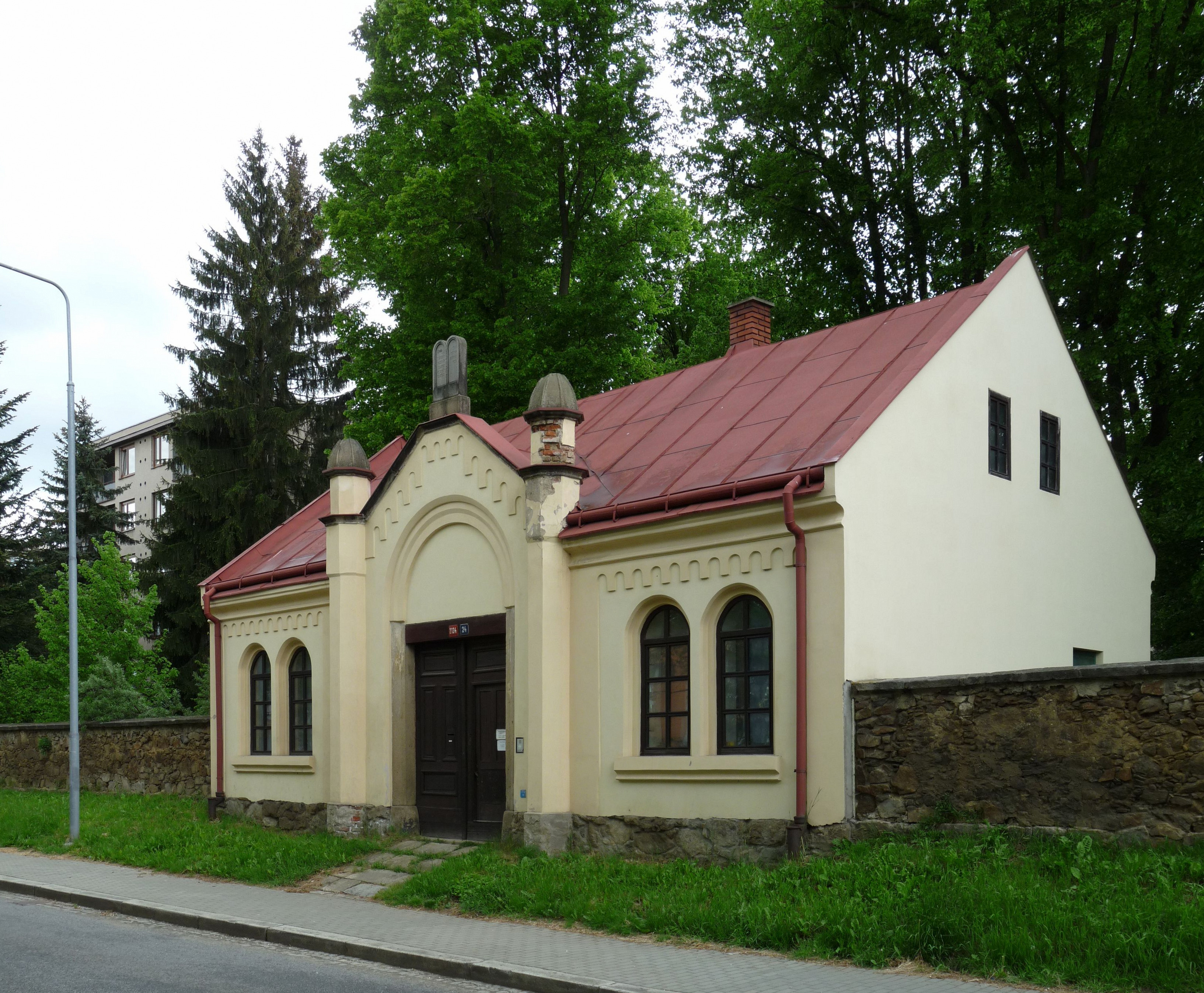 Jewish cemetery in the town of Havlíčkův Brod, Vysočina Region, Czech Republic.